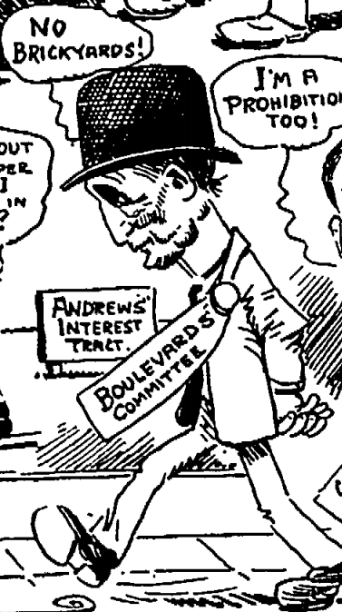 Portion of a larger cartoon published in the Los Angeles Times on April 10, 1910, showing City Council Member Josias J. Andrews. The sign in the back refers to a charge made against Andrews that he had a financial conflict of interest in regard to his part ownership of the Victoria Park, tract. Other information Link requires the use of a library card.